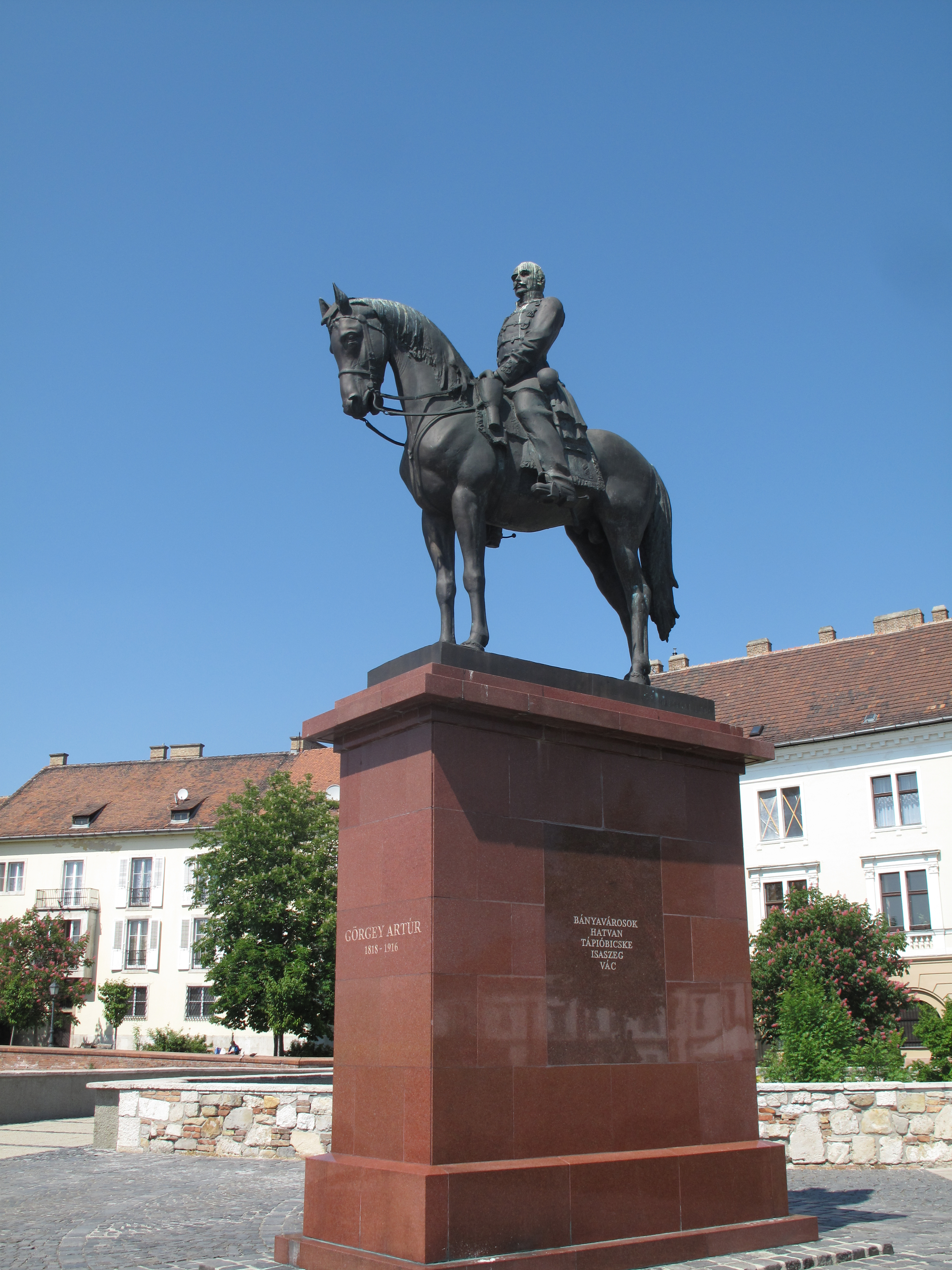 Statue of Artúr Görgei (Hungarian military leader in the Revolution of 1848-49) an equestrian bronze statue, a replica by László Marton in 1998. The original ordered by Gyula Gömbös made by György Vastagh, Jr. in 1935 located on the top of Fehérvári Rondella in Várnegyed neighbourhood (on Buda Castle Hill), Budapest District I.